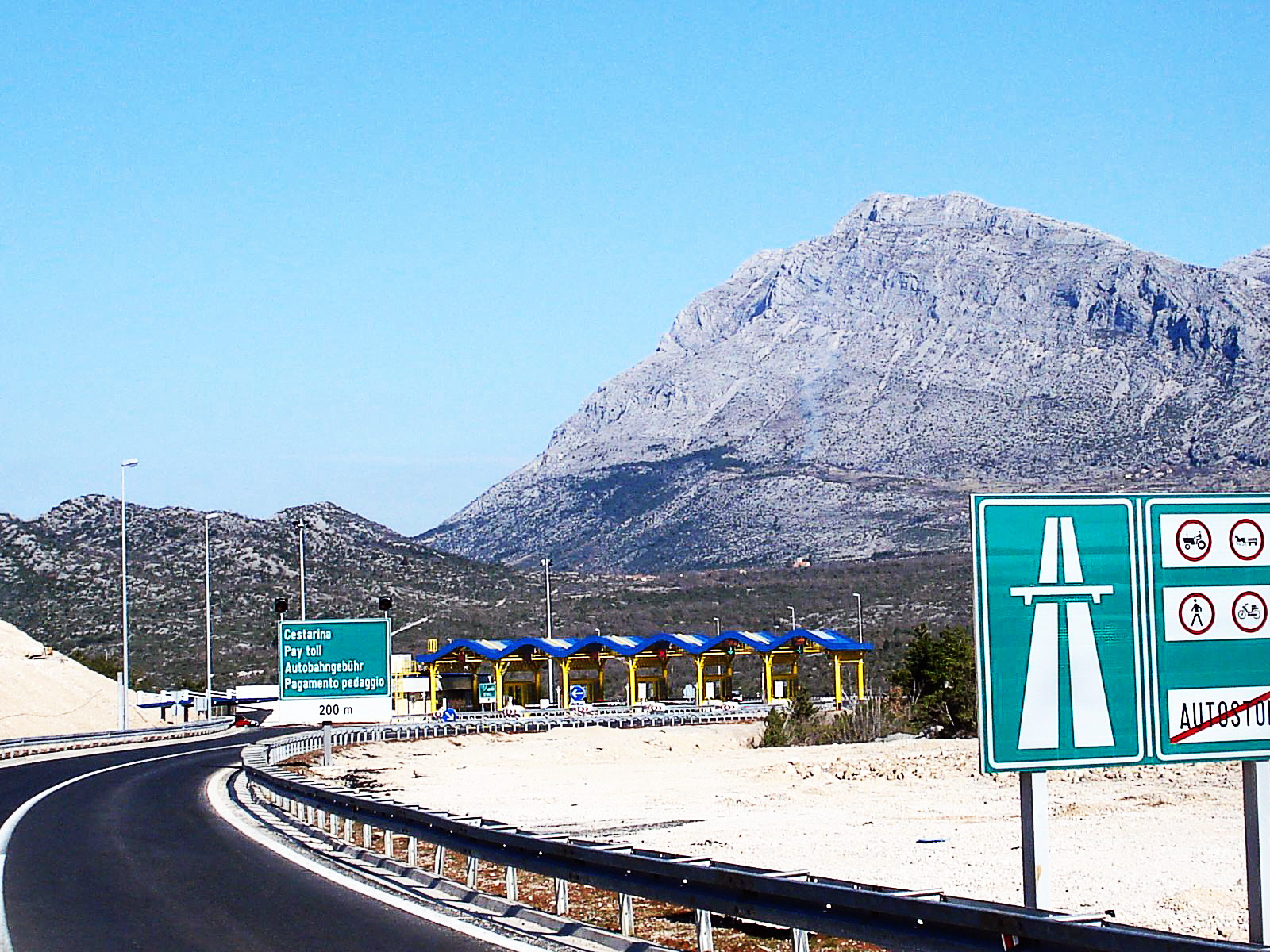 Toll houses near Ravča, Vrgorac, on the croatian A1 Highway.